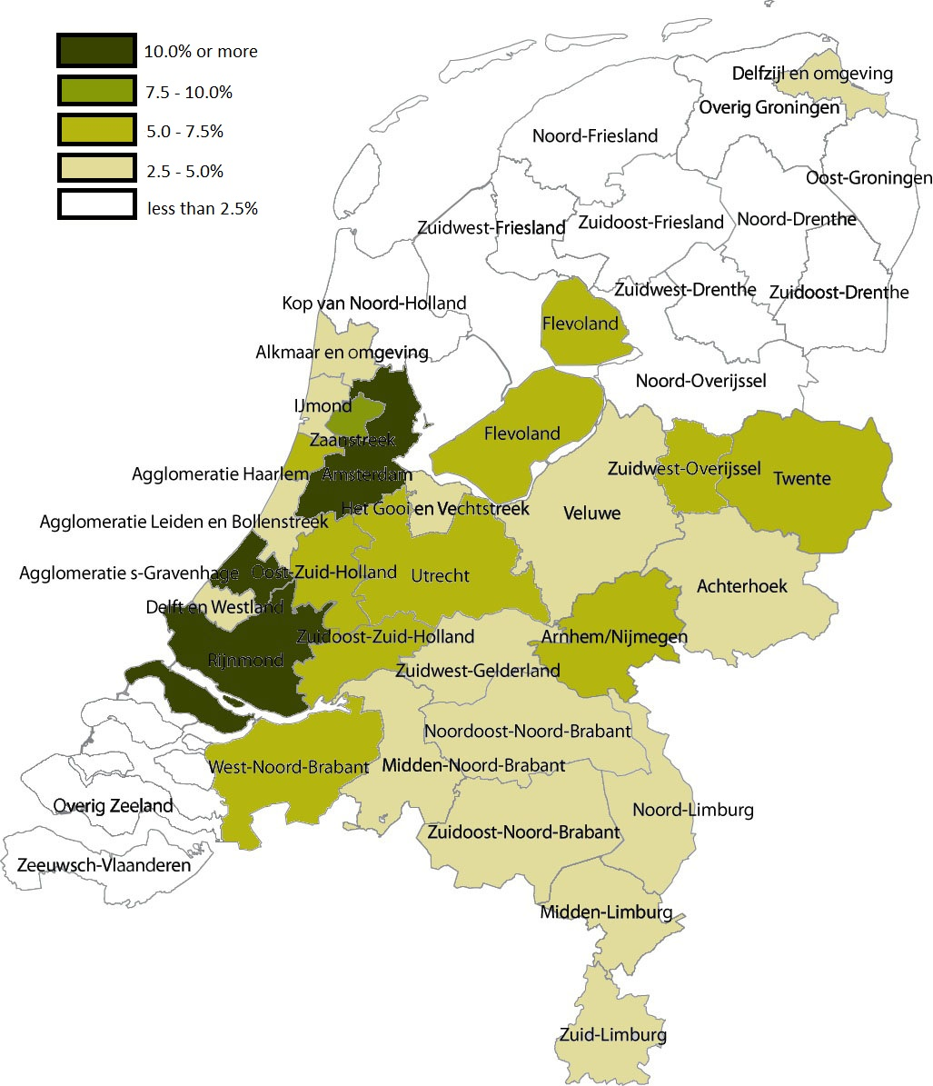 Share of Muslims per COROP area, 1 January 2004 . Data are from Statistics Netherlands (this Statline table); note that Statistics Netherlands calculated the number of muslims by adding up all persons by country of 'origin'. That method changed in 2006, allowing for a more accurate measuring of actual muslims; see this CBS webpage.